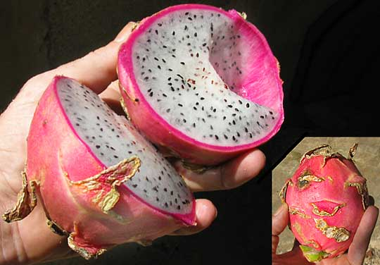 A Pitaya fruit. It comes from a night-blooming cactus of the genus Hylocereus.